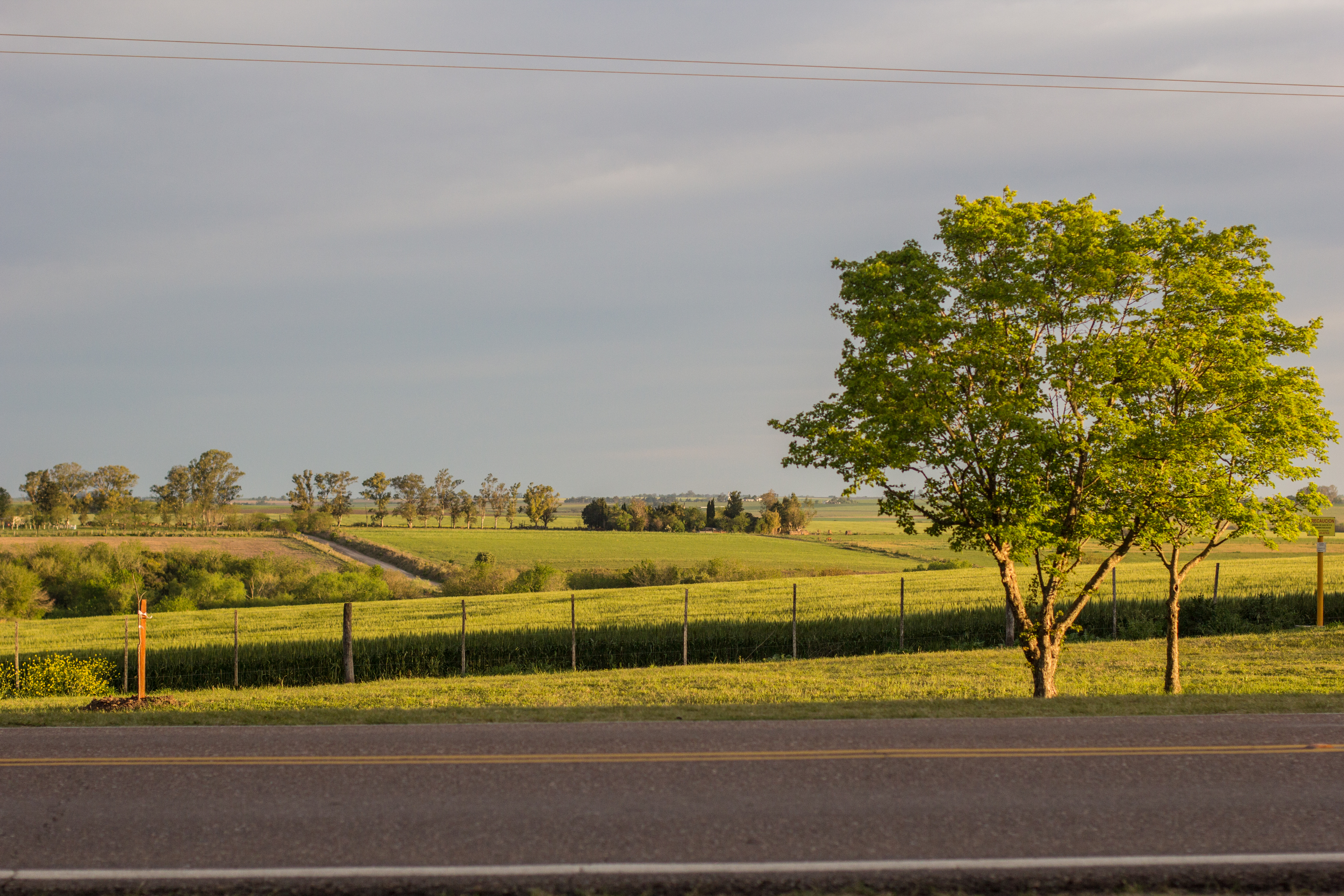 I took this picture a few weeks ago in Entre Ríos, where I'm currently living